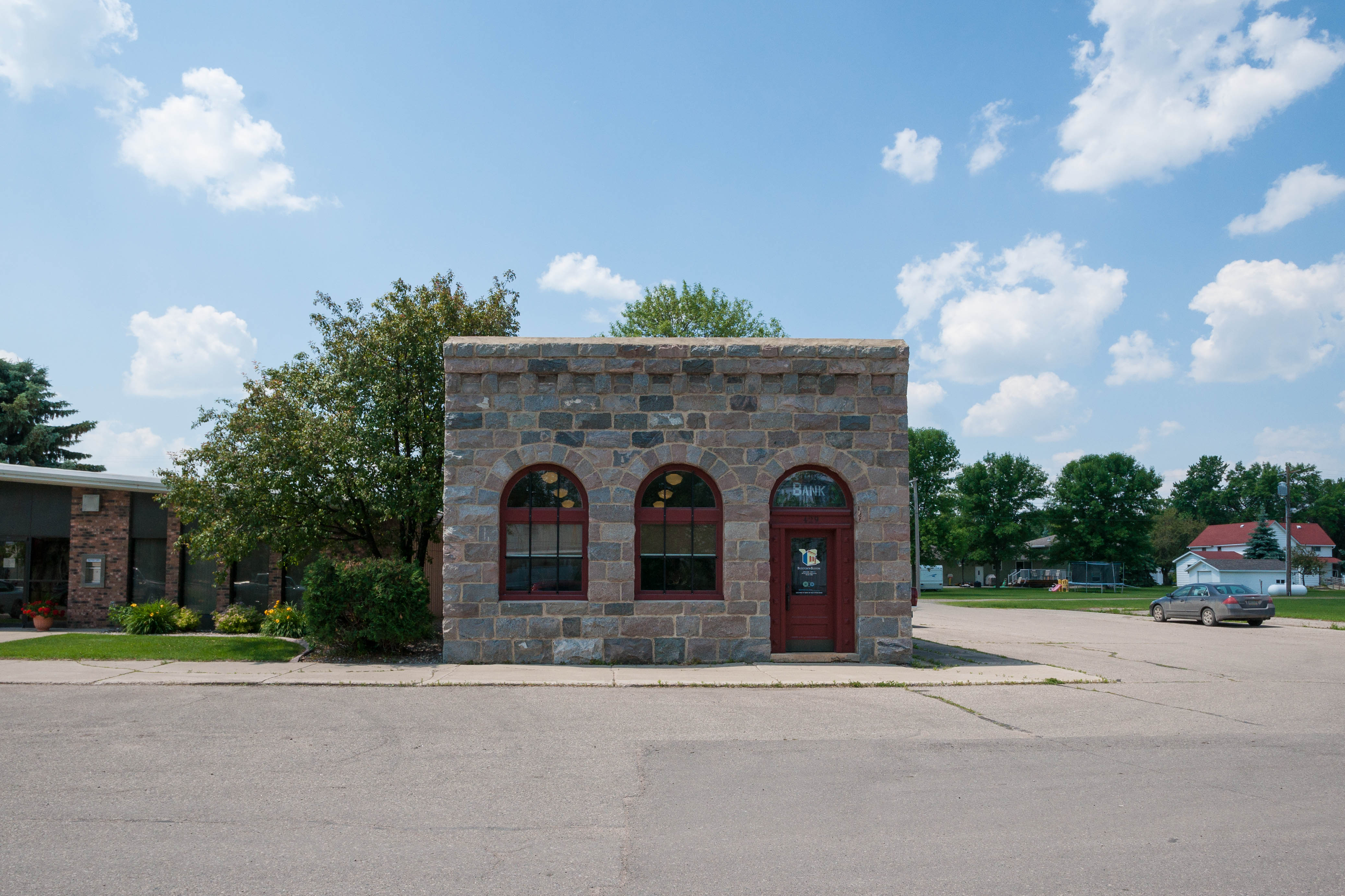 NRHP-listed First State Bank of Buxton in Buxton, North Dakota, after renovation.